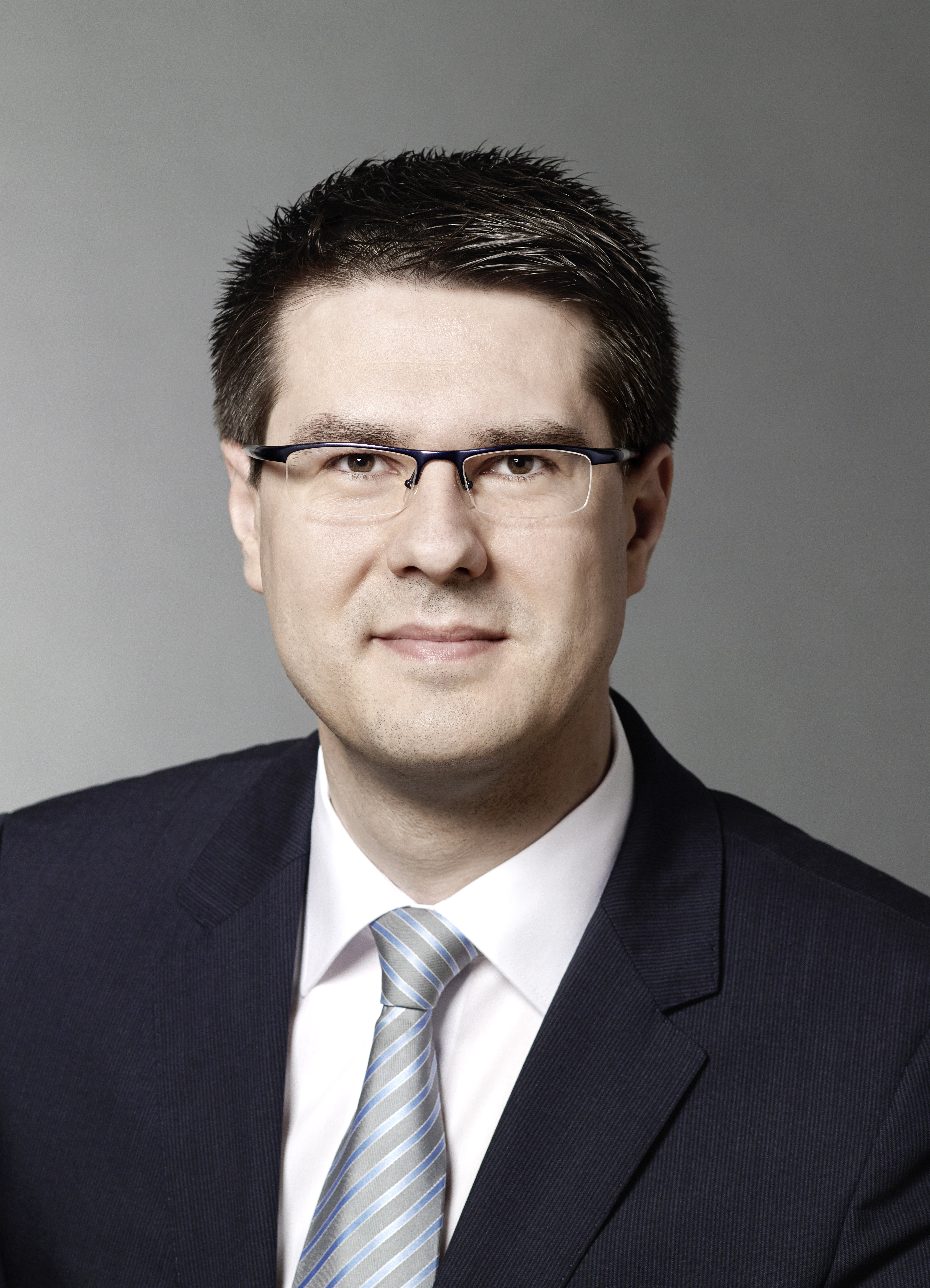 Sven Liebhauser, Saxon politician (CDU) and member of the Landtag of the Free State of Saxony (as of 2019).